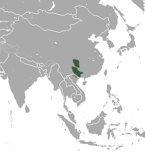 Francois' Langur (Trachypithecus francoisi) range